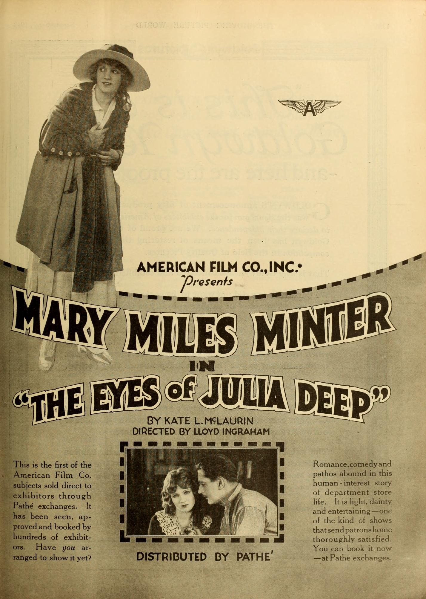 Advertisement in Moving Picture World for the American comedy drama film The Eyes of Julia Deep (1918) with Mary Miles Minter.